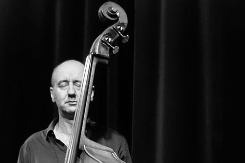 Lloyd Swanton playing with the Necks in Aarhus Denmark november 2015